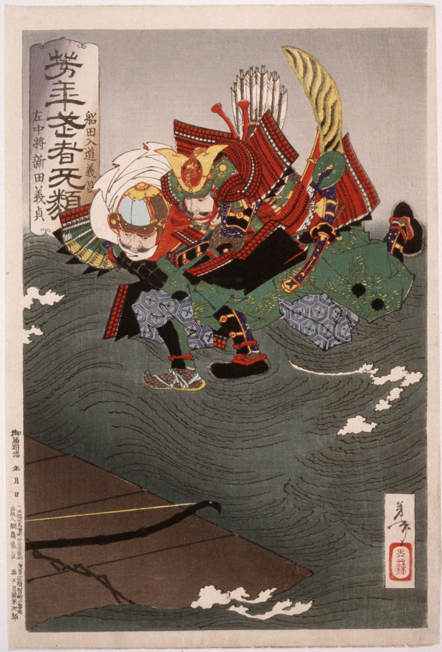 Japan, 1886 Series: Yoshitoshi's Warriors Trembling with Courage Prints; woodcuts Color woodblock print Herbert R. Cole Collection (M.84.31.89) Japanese Art 宙を飛ぶ新田義貞とその重臣の船田義昌。義貞は、増水した天竜川に浮き橋を架けて全軍を渡らせたが、最後に義貞と義昌が渡っている最中に浮き橋の綱が切れ、とっさに義貞は義昌を抱えて二人で跳び、対岸へたどり着いた。家臣思いの義貞と二人の息の合った絆の強さを表した一作。 Nitta Yoshisada(1301-1338) threw a floating bridge over a swollen river to let his troop escape from the enemy. When Yoshisada and his senior vassal Funada Yoshimasa were crossing over the bridge, the rope broke suddenly. Instantly Yoshisada held Yoshimasa and both jumped to the opposite shore.